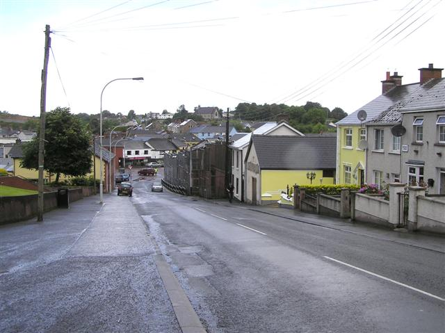 Platers Hill, Coalisland Heading down north-west into the town